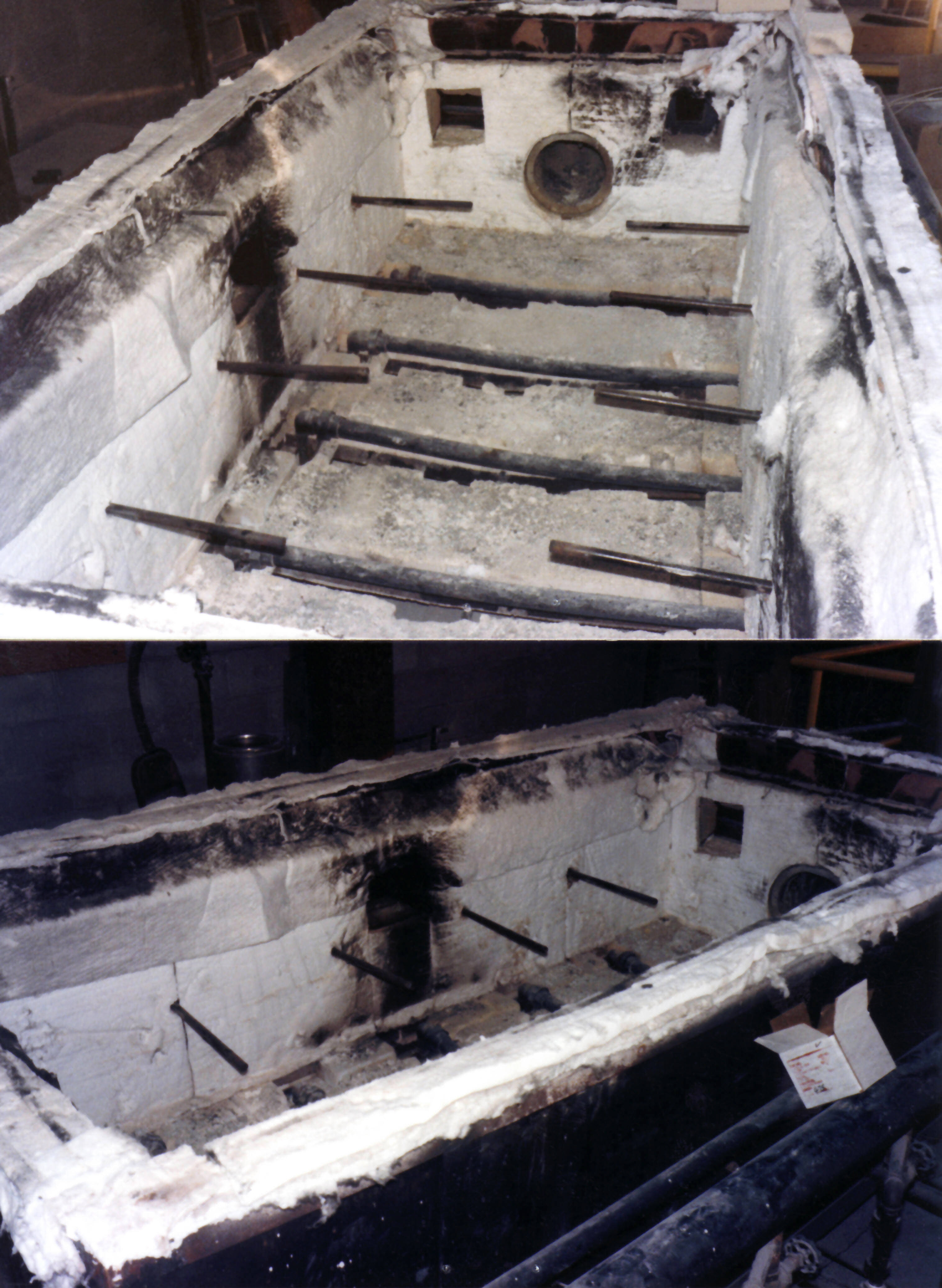 Furnace used in fire test. Bottom pipes let in the gas, middle pipes are shields for thermocouples that meassure the temperature.